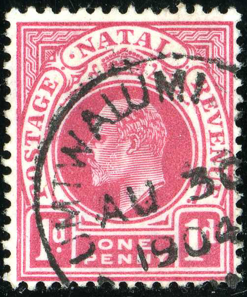 1 d Natal 1902 issue, circle at Umtwalumi on 30 August 1904. Yv58 Mi59 SG128 carmine. uMdoni Local Municipality in Ugu District.